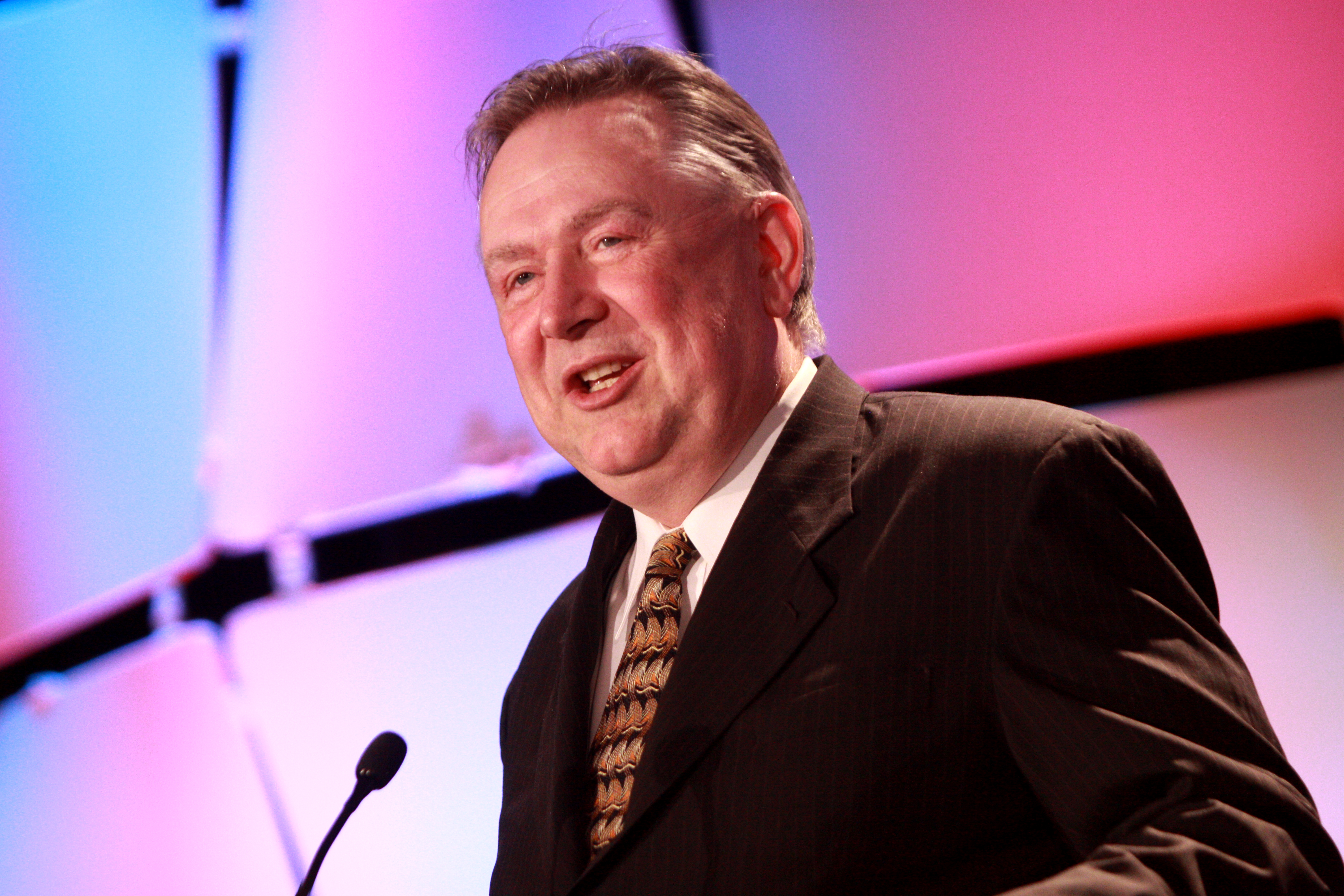 Congressman Steve Stockman speaking at the 2013 Liberty Political Action Conference (LPAC) in Chantilly, Virginia.